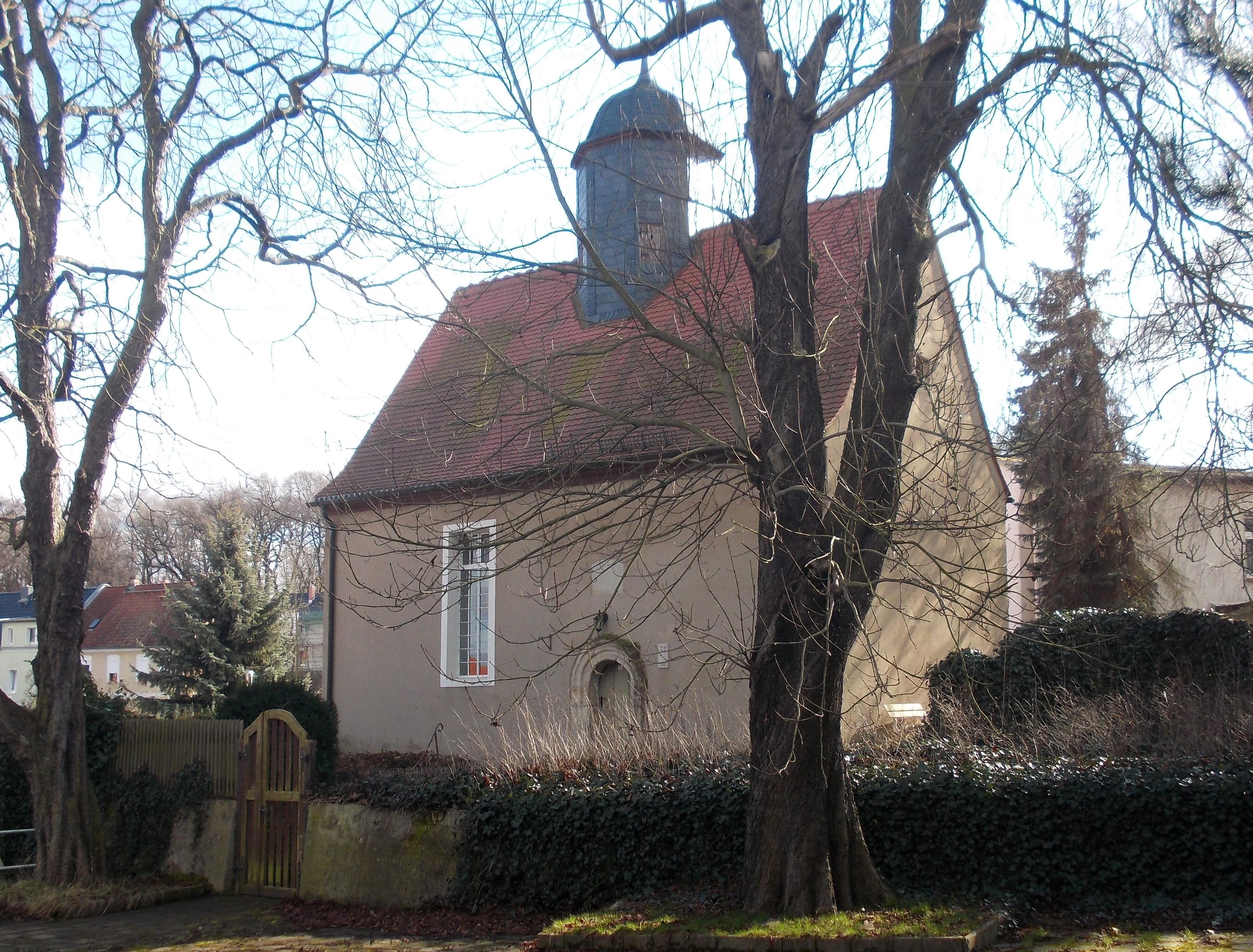 Gröben church (Teuchern, district: Burgenlandkreis, Saxony-Anhalt)